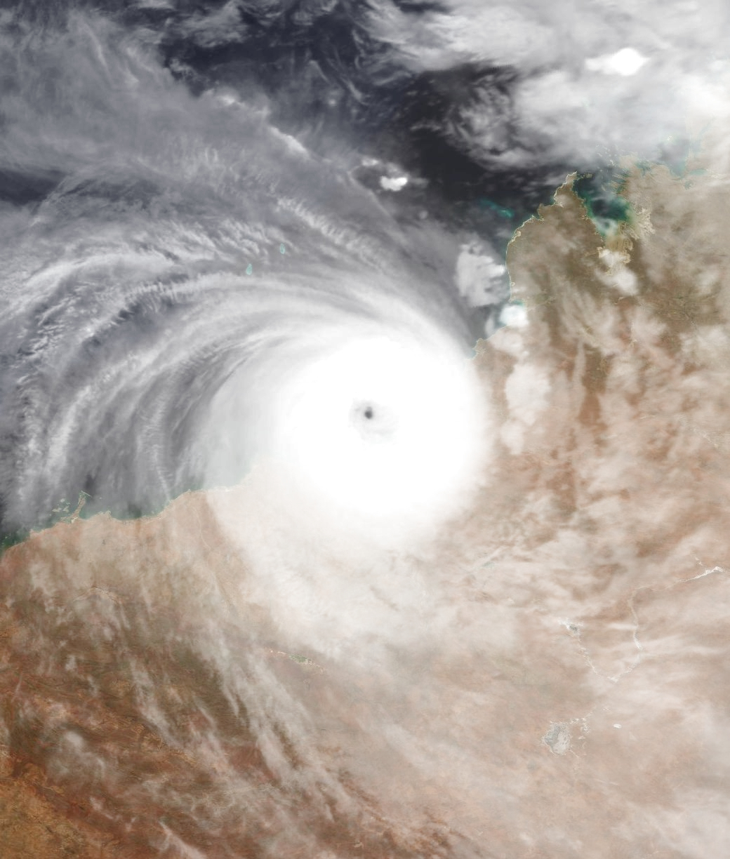 Cyclone Chris making landfall at peak intensity on 5 March